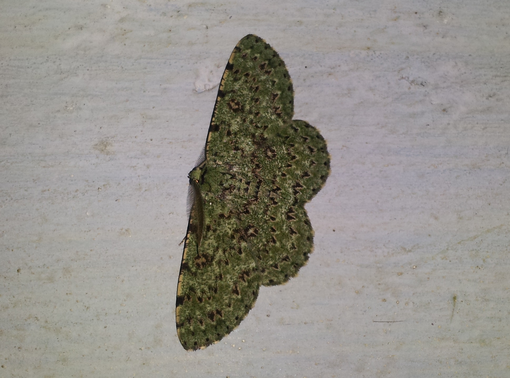 Moth sp. taken in the night from area of Bakamuna..